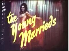 Screenshot from the 16 mm adult movie "The Young Marrieds" from Edward D. Wood jr. Never registered for copyright and published before 1978.